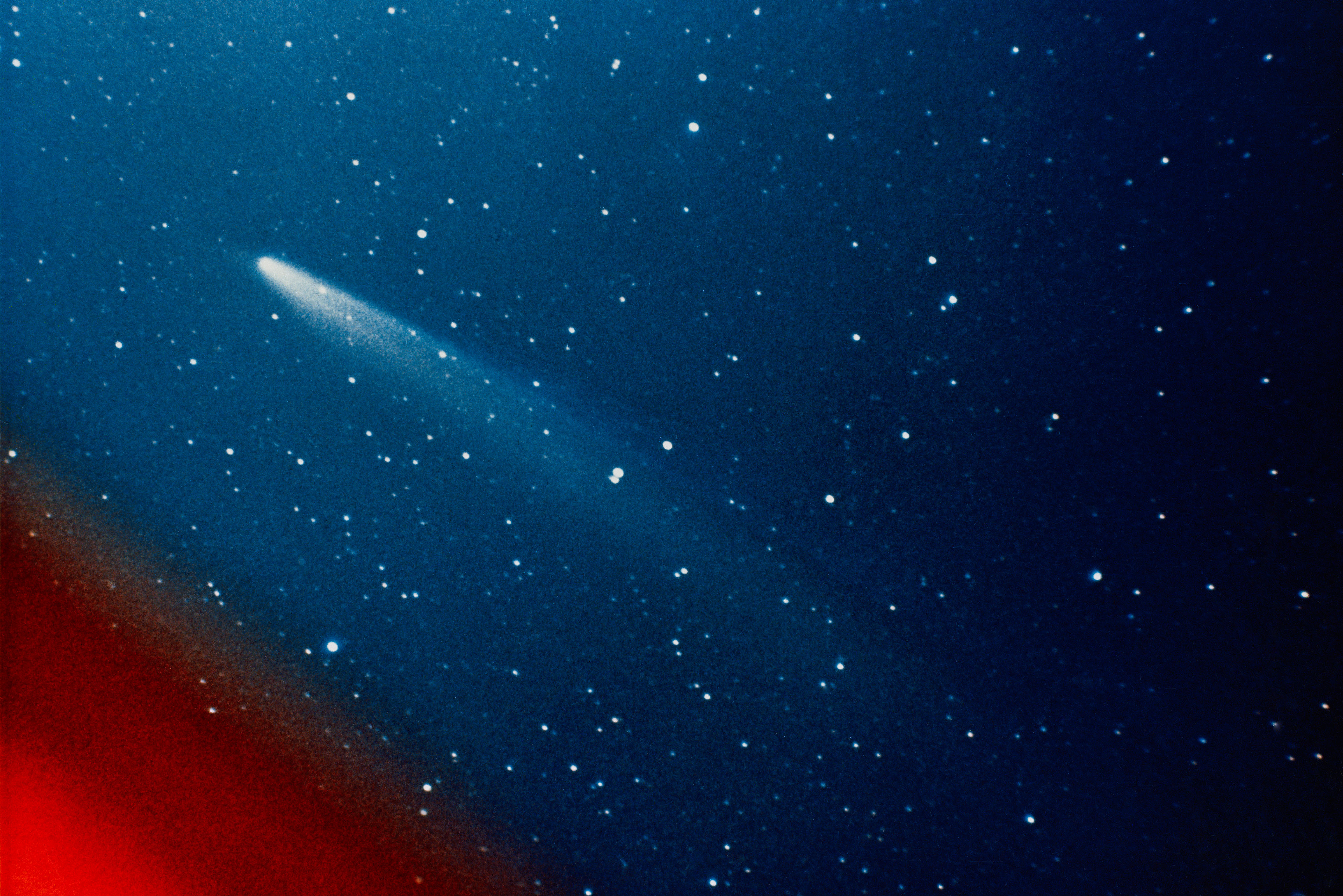 This color photograph of the comet Kohoutek (C/1973 E1) was taken by members of the lunar and planetary laboratory photographic team from the University of Arizona, at the Catalina observatory with a 35mm camera on January 11, 1974.